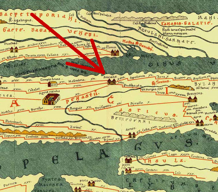 Cutout from Tabula Peutingeriana, 1-4th century CE. Facsimile edition by Conradi Millieri, 1887/1888; the red arrow shows Tabula Peutingeriana places in modern Bulgaria; on the map: Ancialis ; in modern Bulgaria: city Pomorie